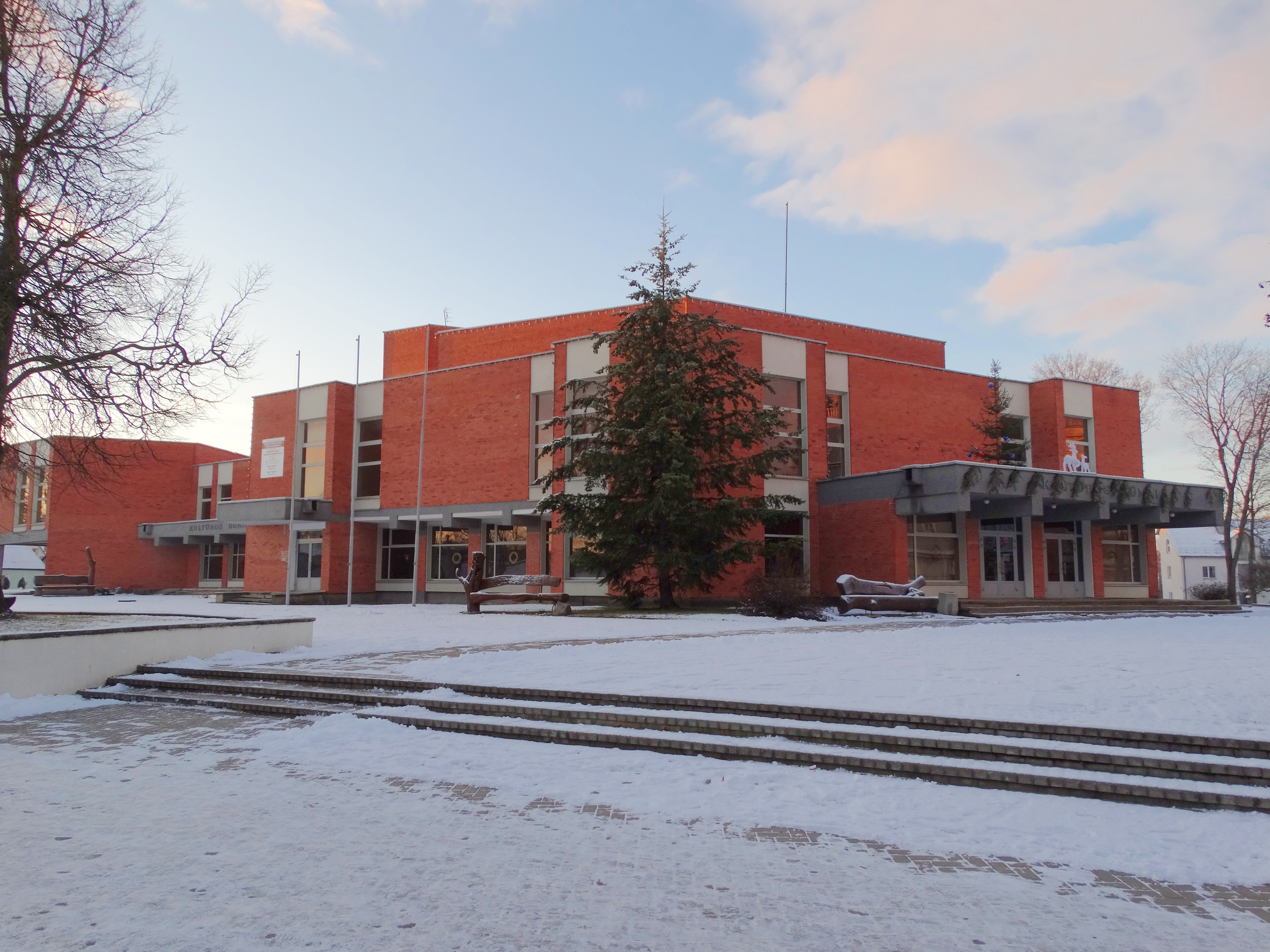 Palace of culture, Radviliškis, Lithuania